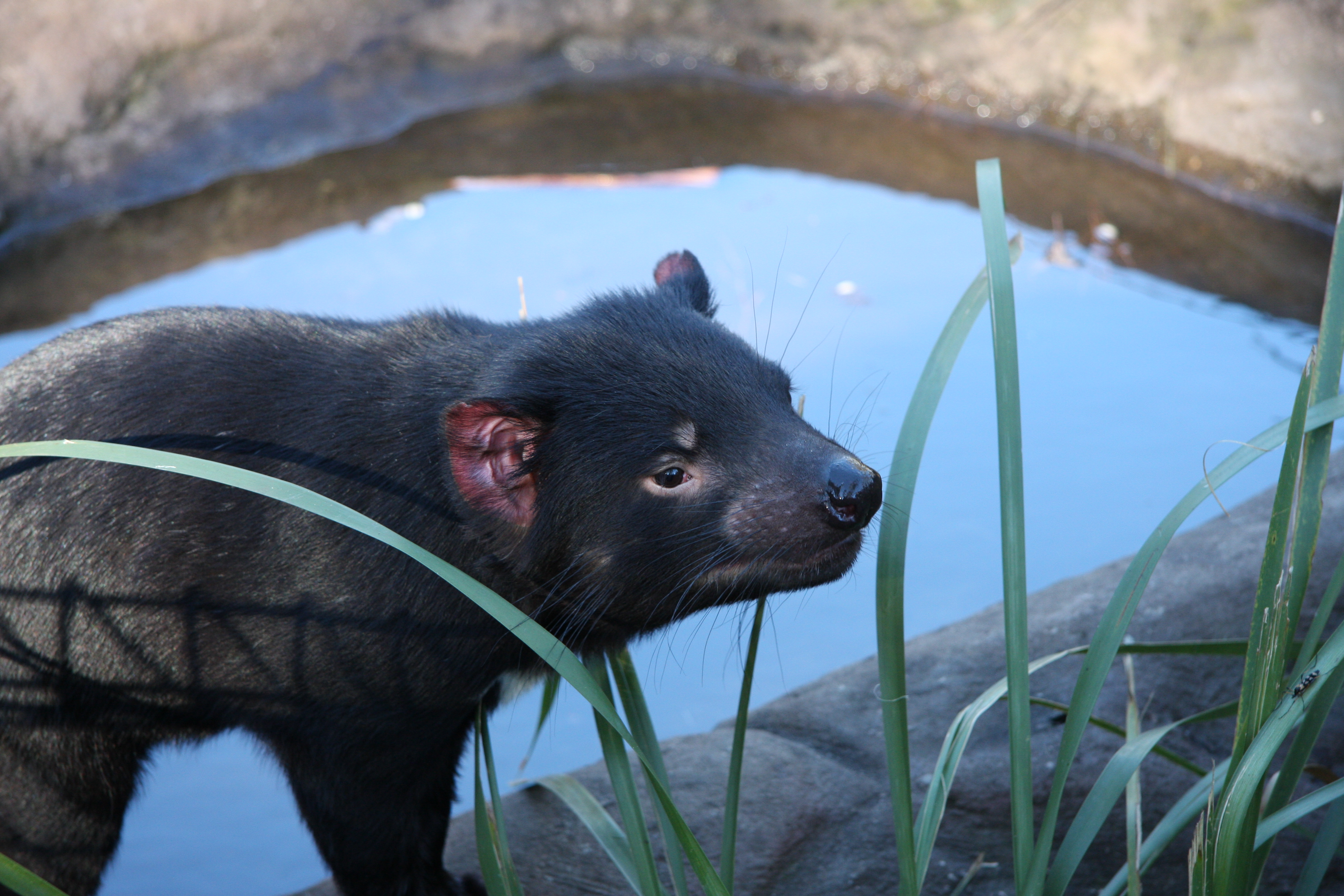 Sarcophilus harrisii in Australian Reptile Park, Australia